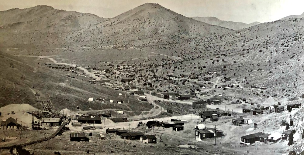 Upper Rochester, Nevada c 1918.